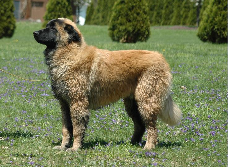 Estrela Mountain Dog. 6 month old fawn male